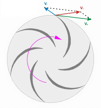 Schematic of centrifugal pump dynamics